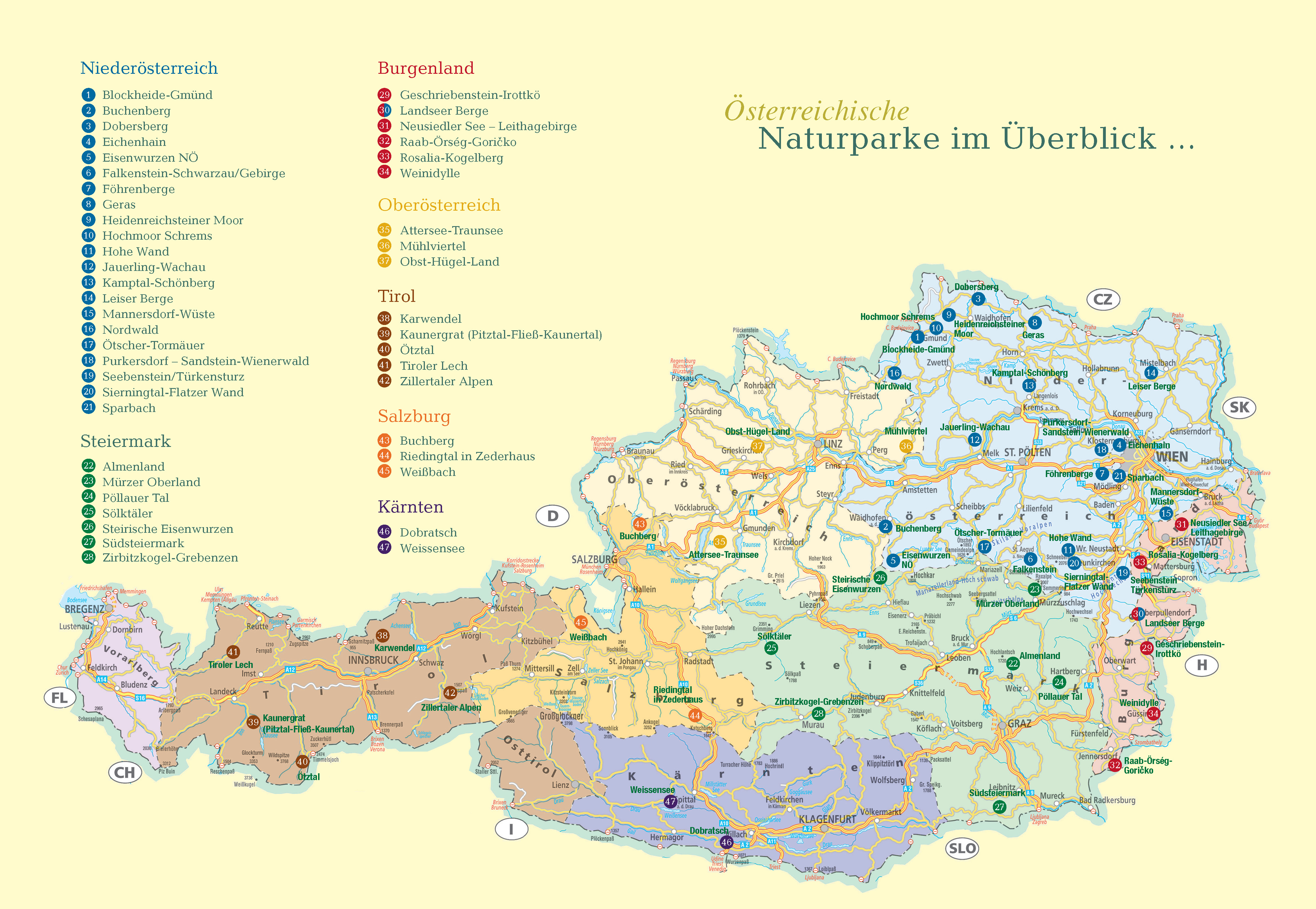 Nature Parks Map